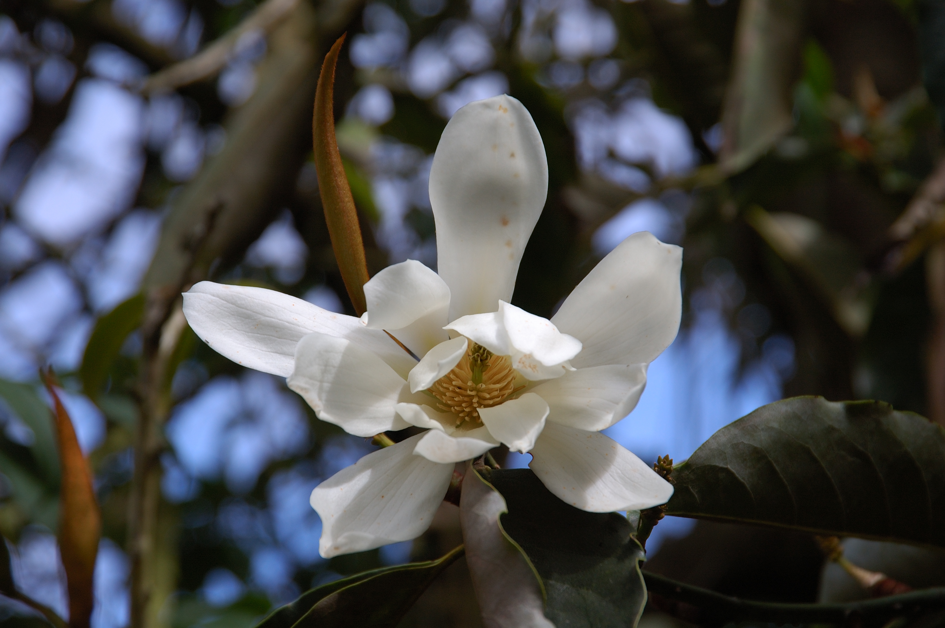 Magnolia doltsopa (syn. Michelia doltsopa), photographed at the San Francisco Botanical Garden at Strybing Arboretum